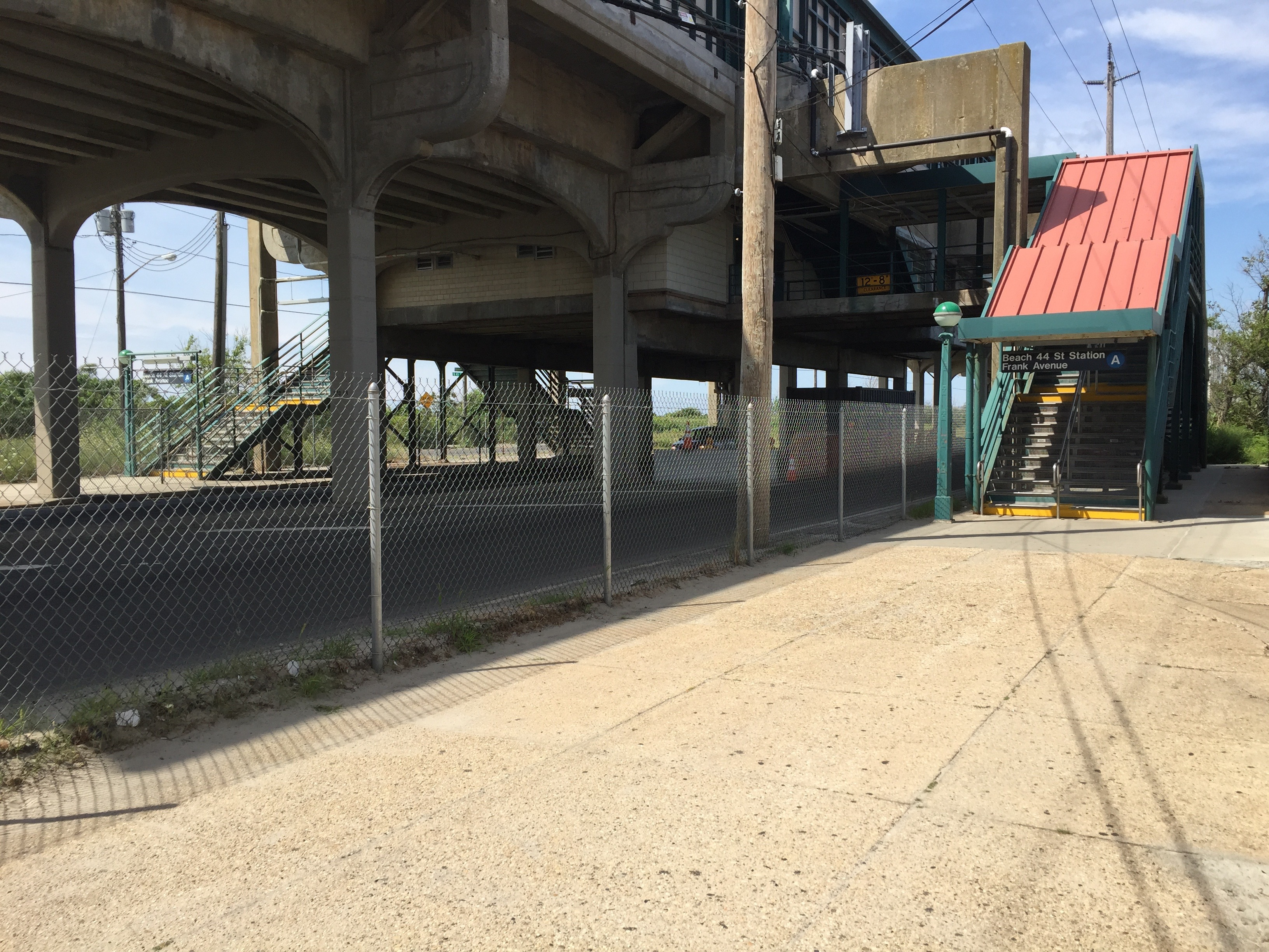 Stairs at Beach 44th Street on the A.